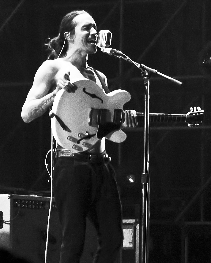 Brandon Boyd performing with Incubus at Rock in Roma on 25 June 2012.